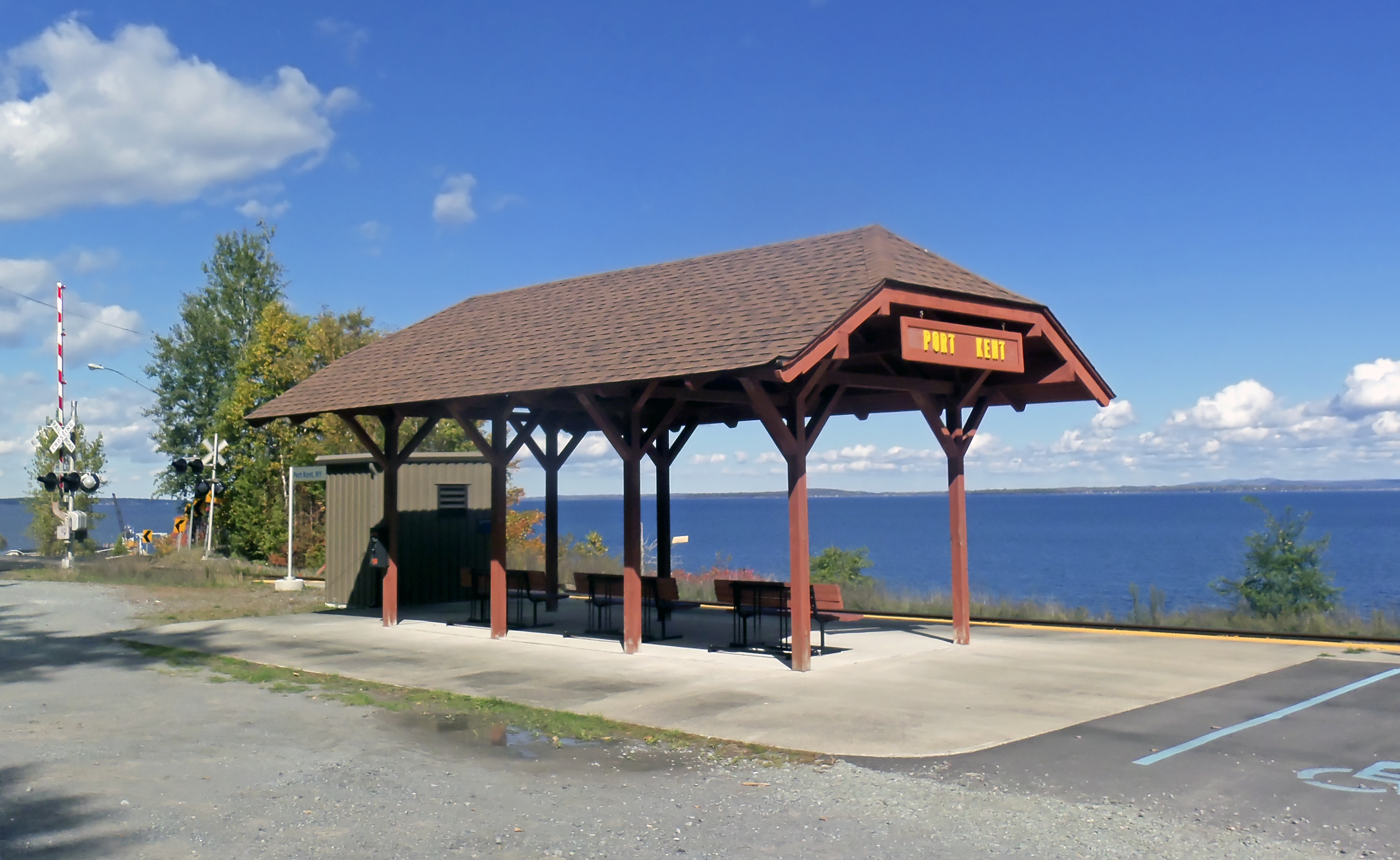 Amtrak station at Port Kent, NY, USA. In background is Lake Champlain, with Vermont on the far shore.